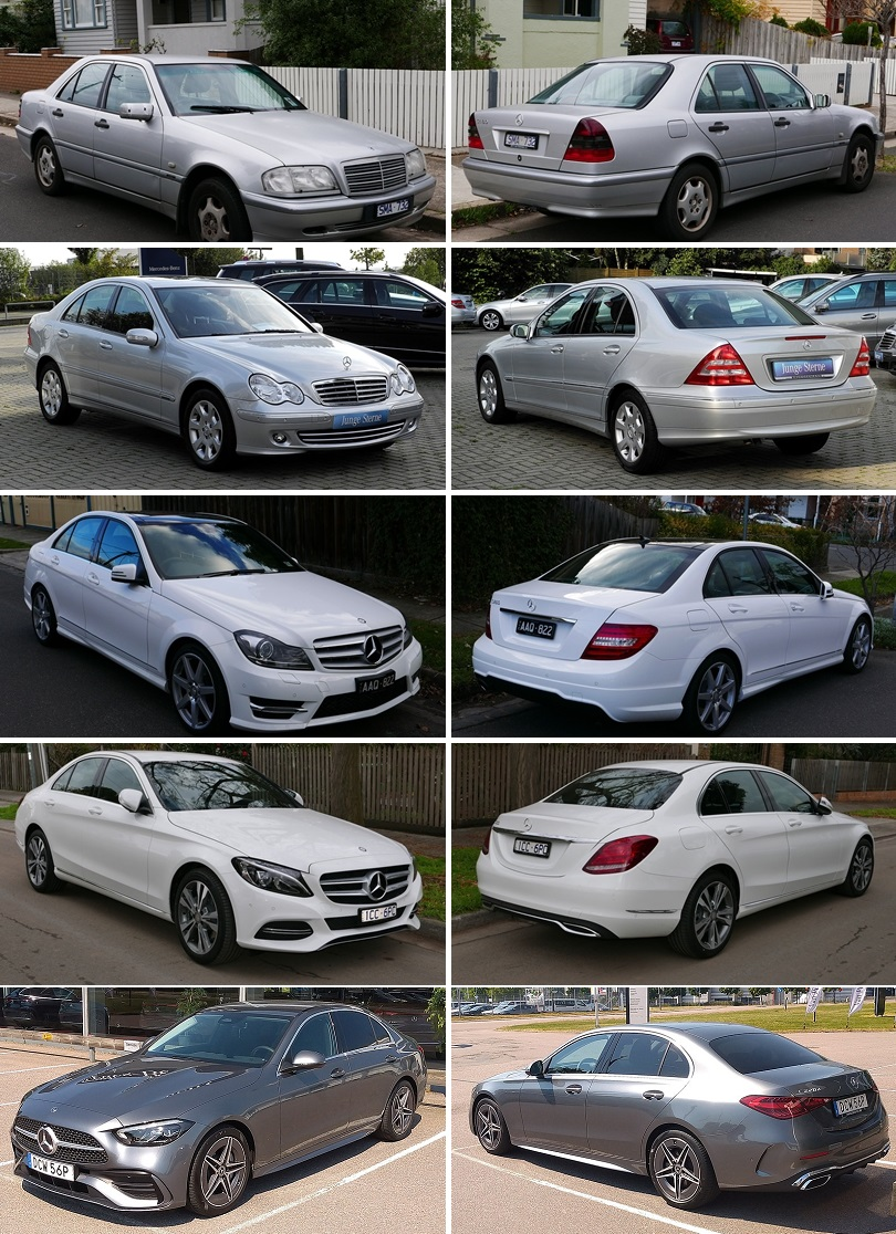 The four series (W202, W203, W204 and W205) of the Mercedes-Benz C-Class compared.